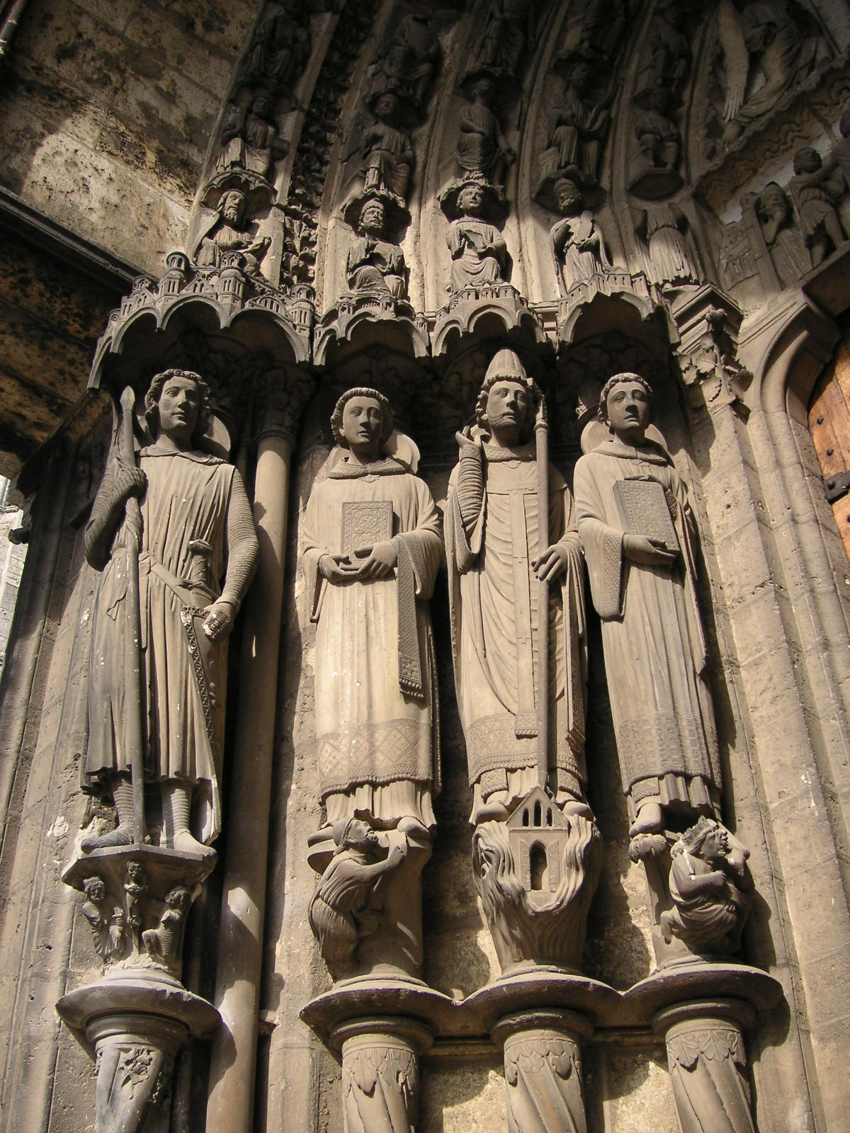 Chartres Cathedral, South Portal, Martyrs.